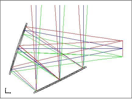 The parabolic primary mirror is at the bottom and the large secondary on the left. The focal plane is on the right. Each colour shows rays from seperate objects